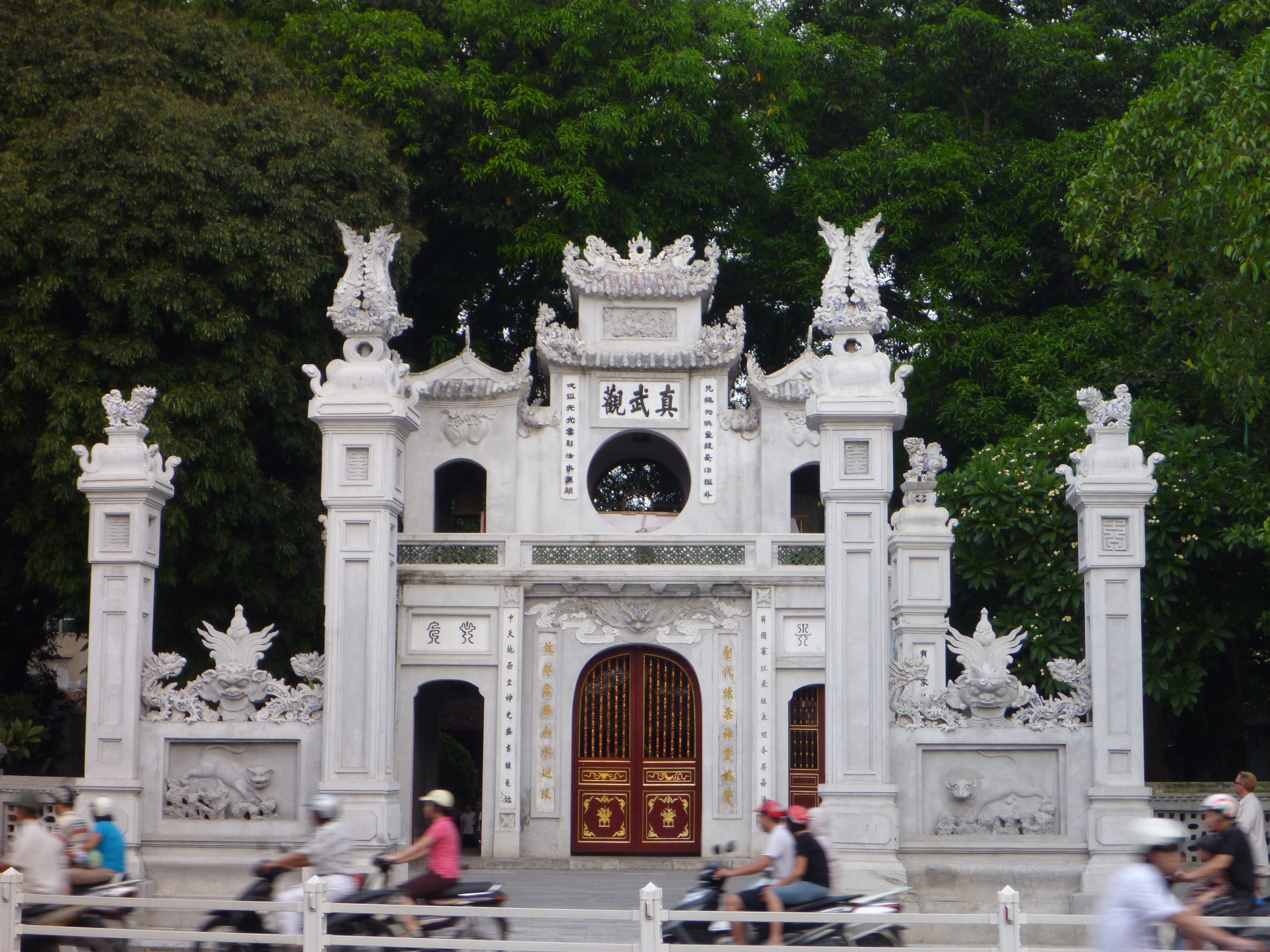 Quán Thánh Temple Gate